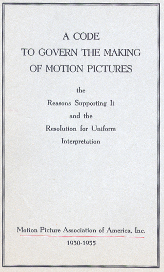 Motion Picture Production Code (Hays Code), cover of a paper copy.